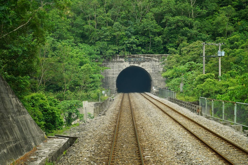 Anshuo Tunnel